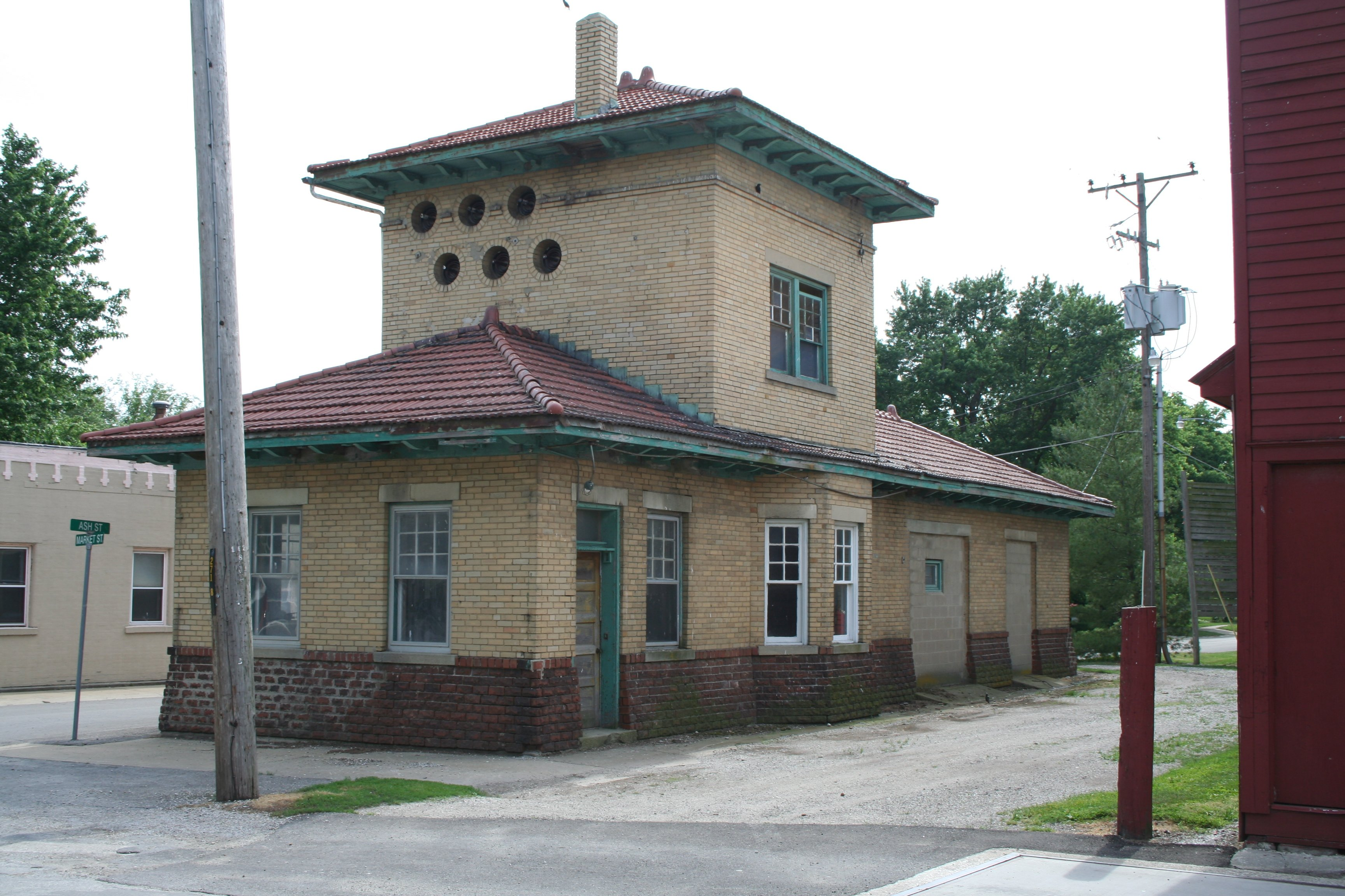 Old Bondville, Illinois Interurban rail station